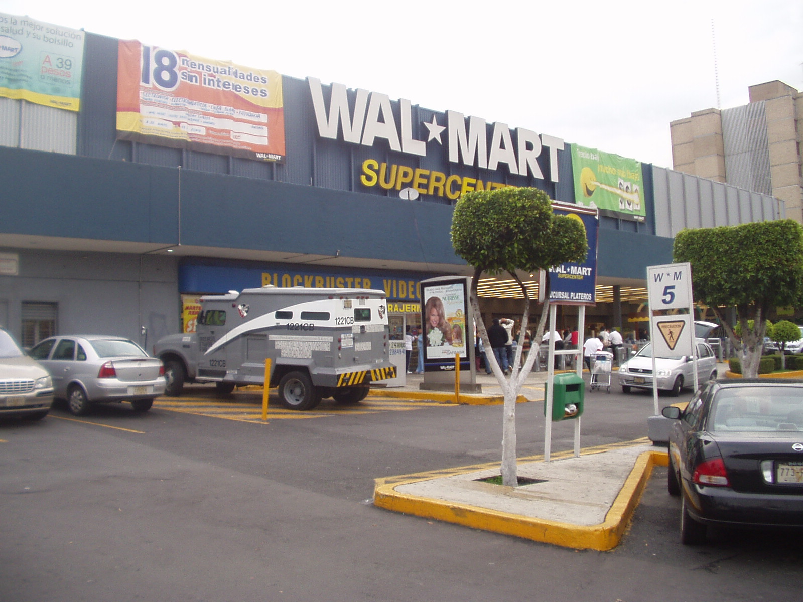 Overview of Wal Mart supercenter -Plateros- Store in Mexico City. Before Wal Mart entered Mexico, this was an Aurrera store.